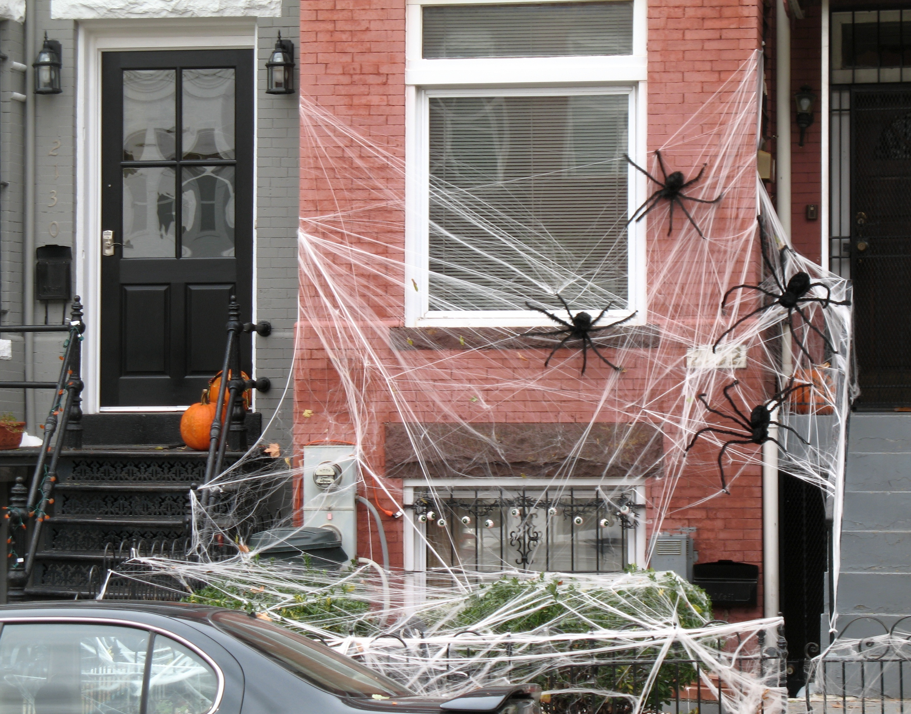 "Spider infestation" at a row house in Shaw neighborhood of Washington DC